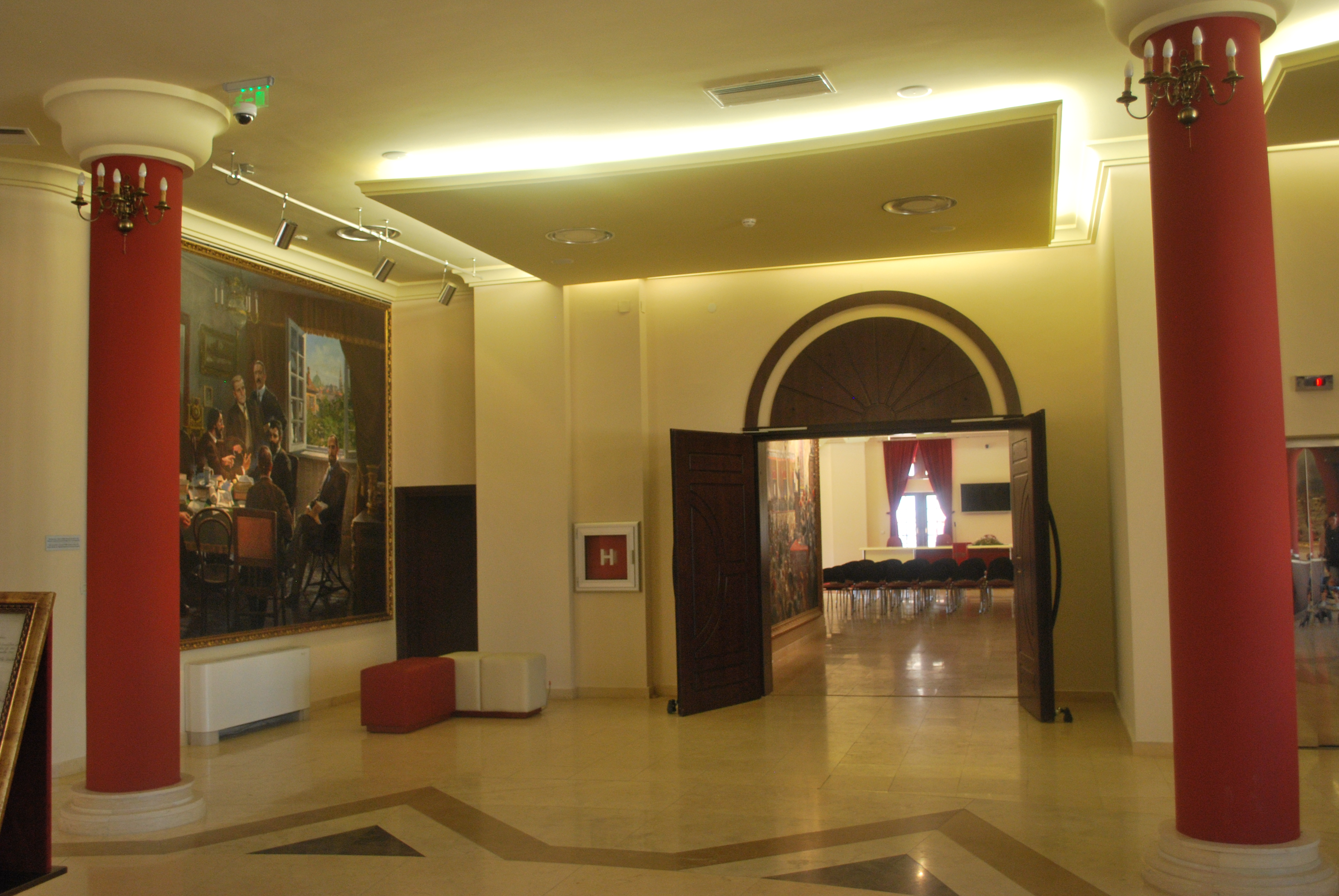 Museum of the Macedonian Struggle for sovereignity and independence - " Museum of VMRO and Museum of victims of communist regime" in Skopje, Macedonia.